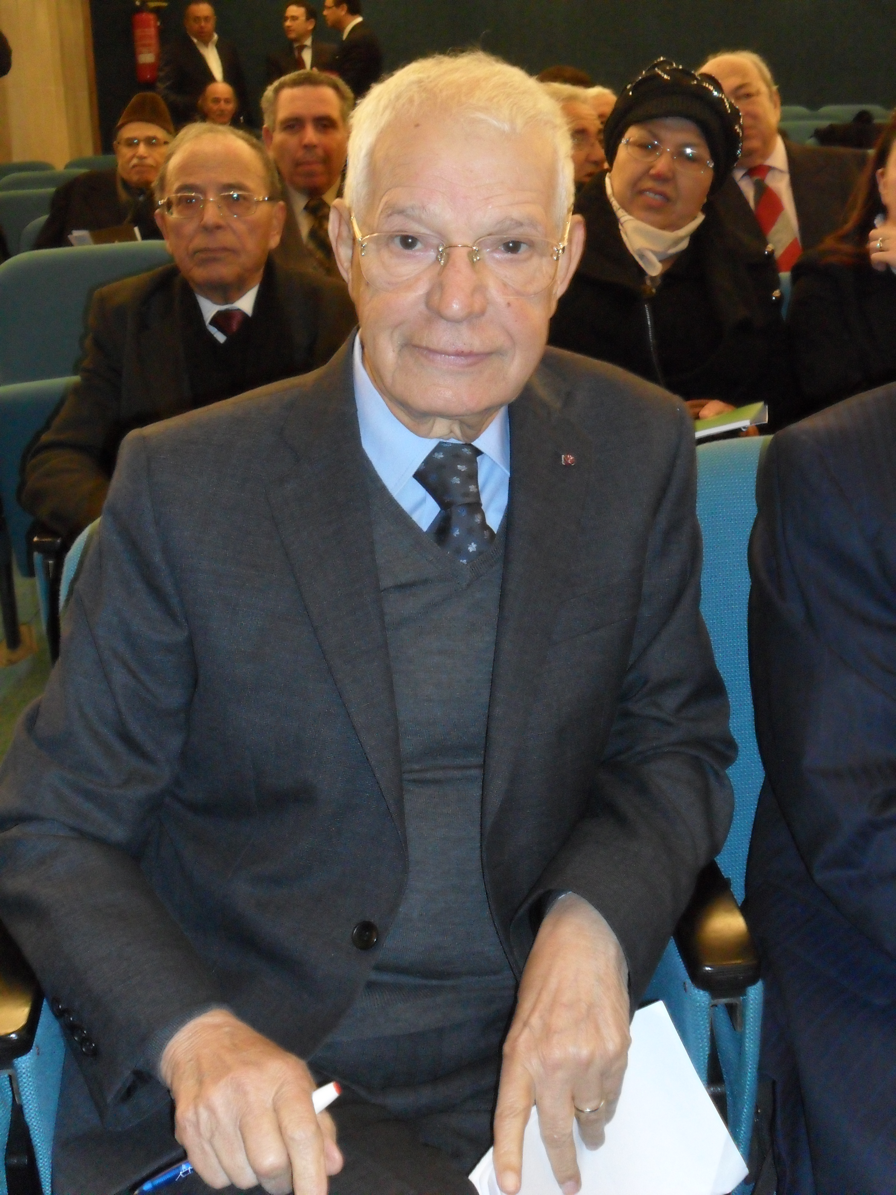 Hedi Baccouche (1930- ), former Tunisian Prime Minister